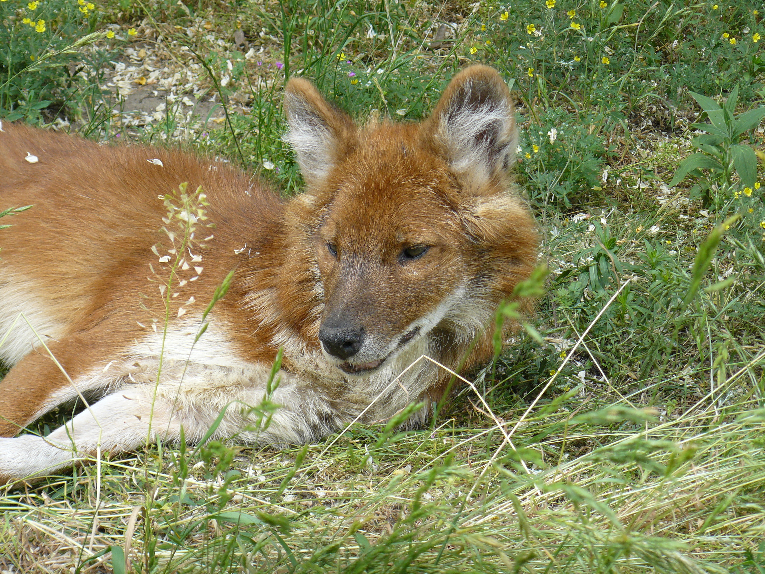 Dhole in Tierpark Berlin